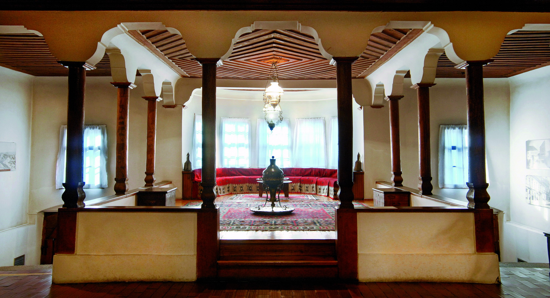 Конак кнегиње Љубице унутра